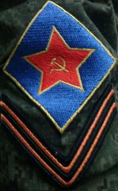 The combat banner of Communist Unit led by Piotr Biriukov